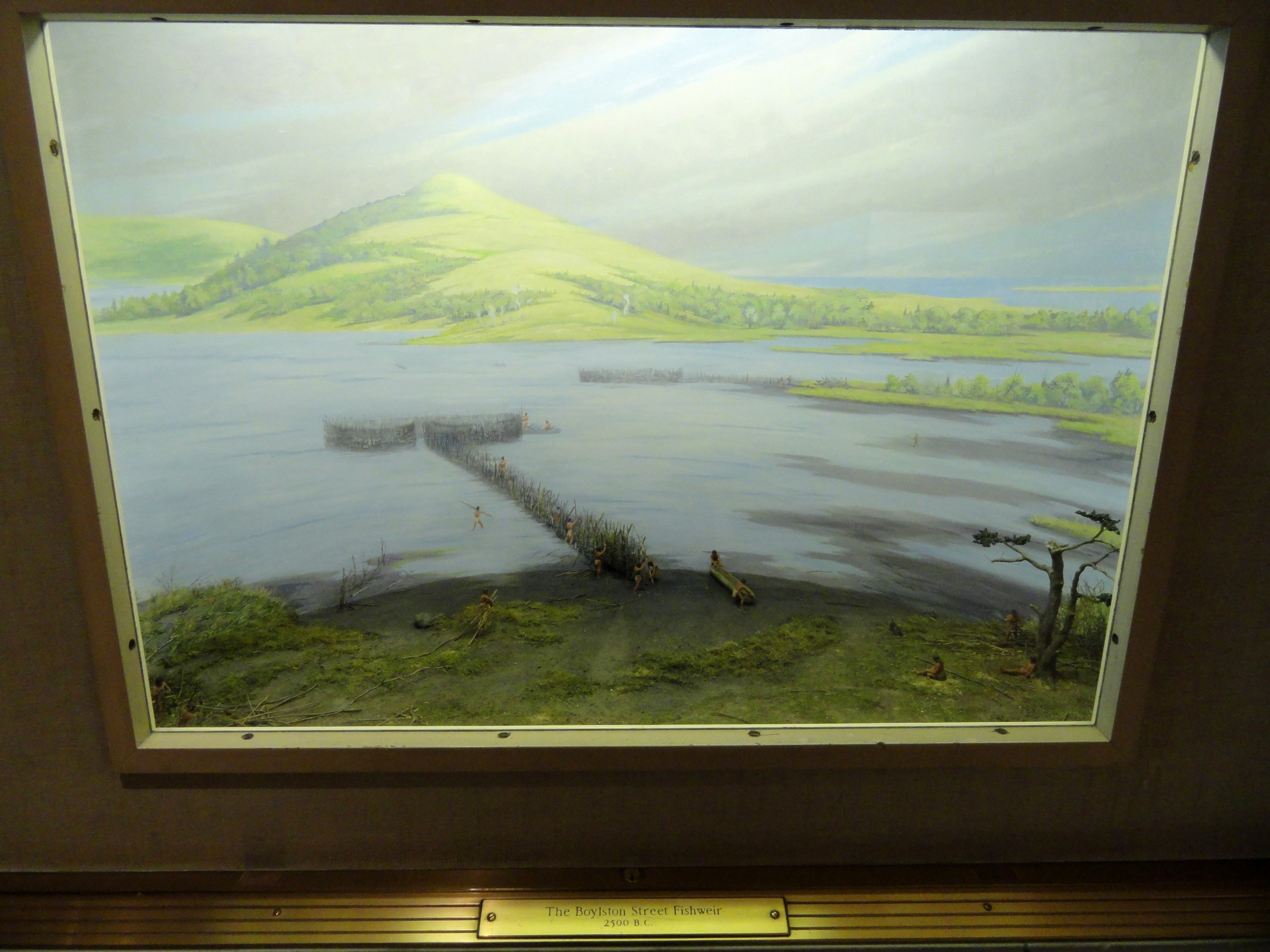 The Boylston Street Fishweir, 2500 BC. A diorama commissioned by the New England Life Insurance Company, in the building lobby of 501 Boylston St Boston, Massachusetts, USA. Models were created by the Pitman Studio in Cambridge, and the backdrop painted by Henry Brooks.